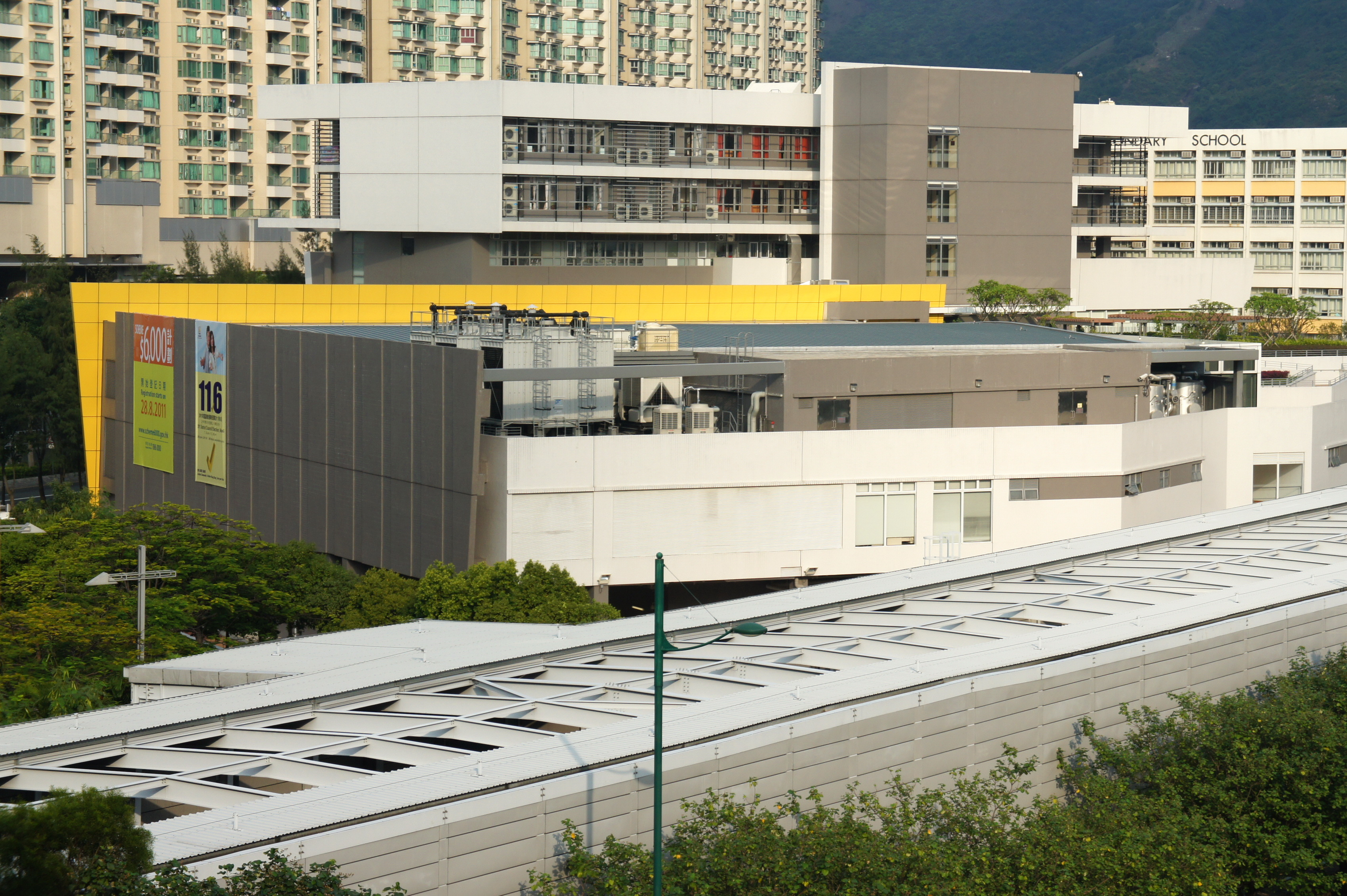 Tung Chung Municipal Services Building, Tung Chung, Hong Kong.